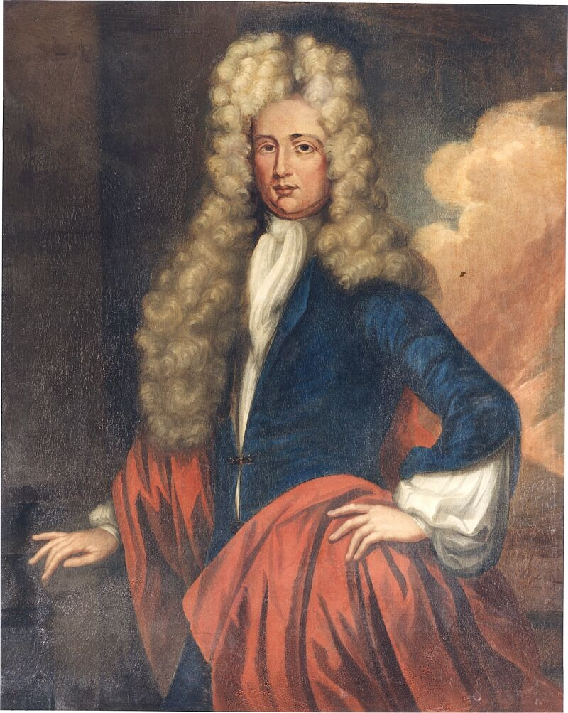 Portrait of Thomas Shadwell (c.1642 - 1692)